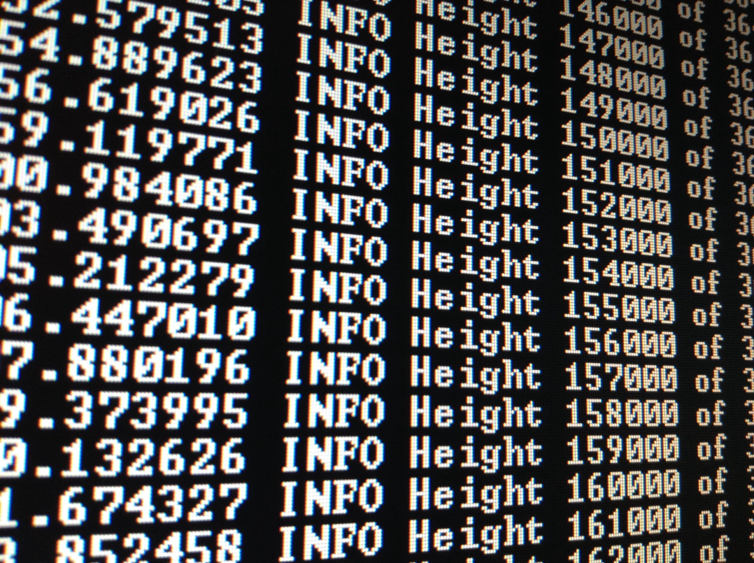 Blockchain